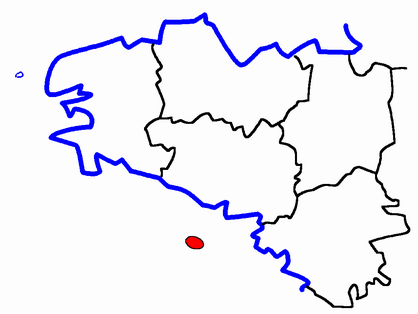 Description: Map for localisazion of cantons of Bretagne region in France Source: made by Hervé Tigier in april 2005 from another large map (published in 1990)